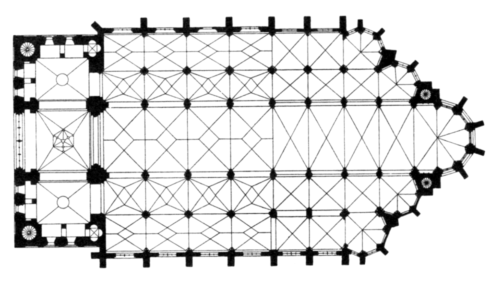 Xanten, Germany. Catholic church St. Viktor, floor plan.